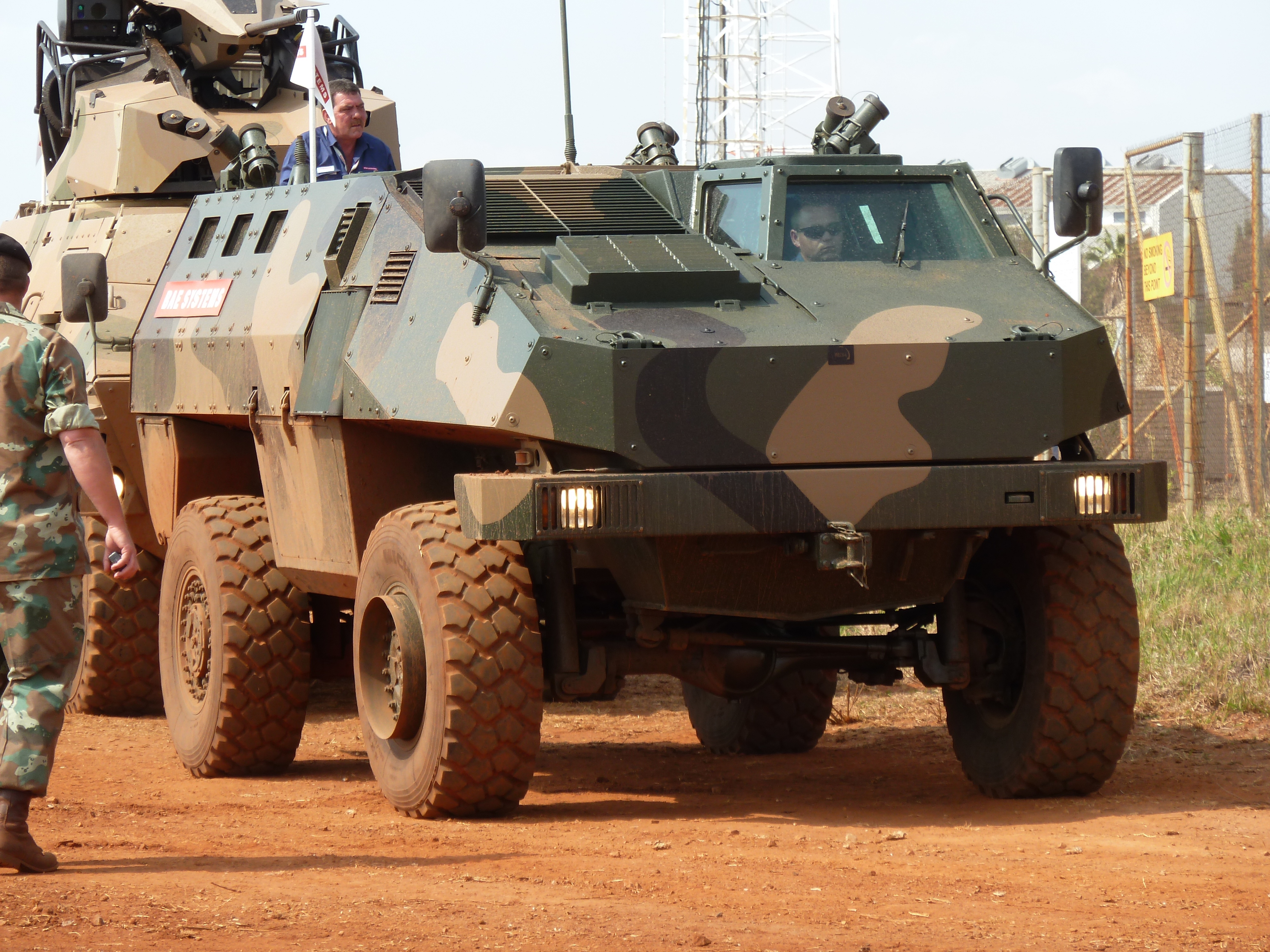 RG34 Light Armoured Vehicle by BAE at Waterkloof AFB, queuing to depart on short demonstration circuit